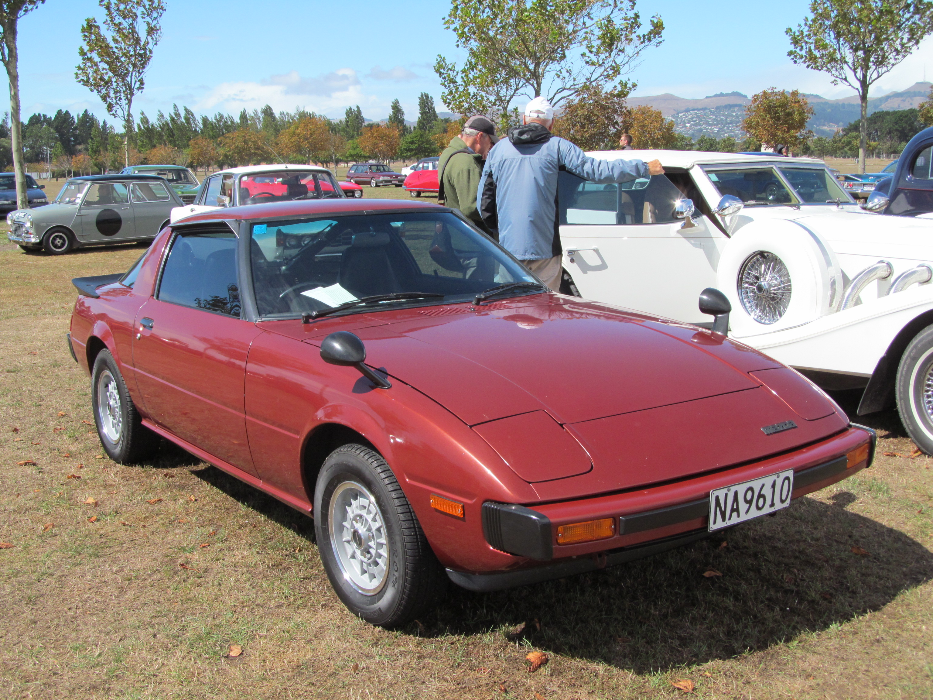 This was in unbelievably original and clean condition, and is probably worth a pretty penny now too. A very early 'official' Japanese import from 1987 - the year I believe NZ dealers starting importing used JDM cars in larger numbers.